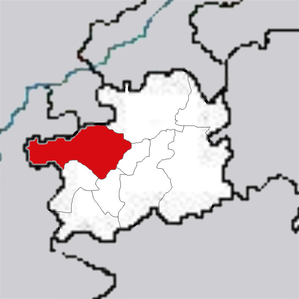 Maps of Guizhou Province of China